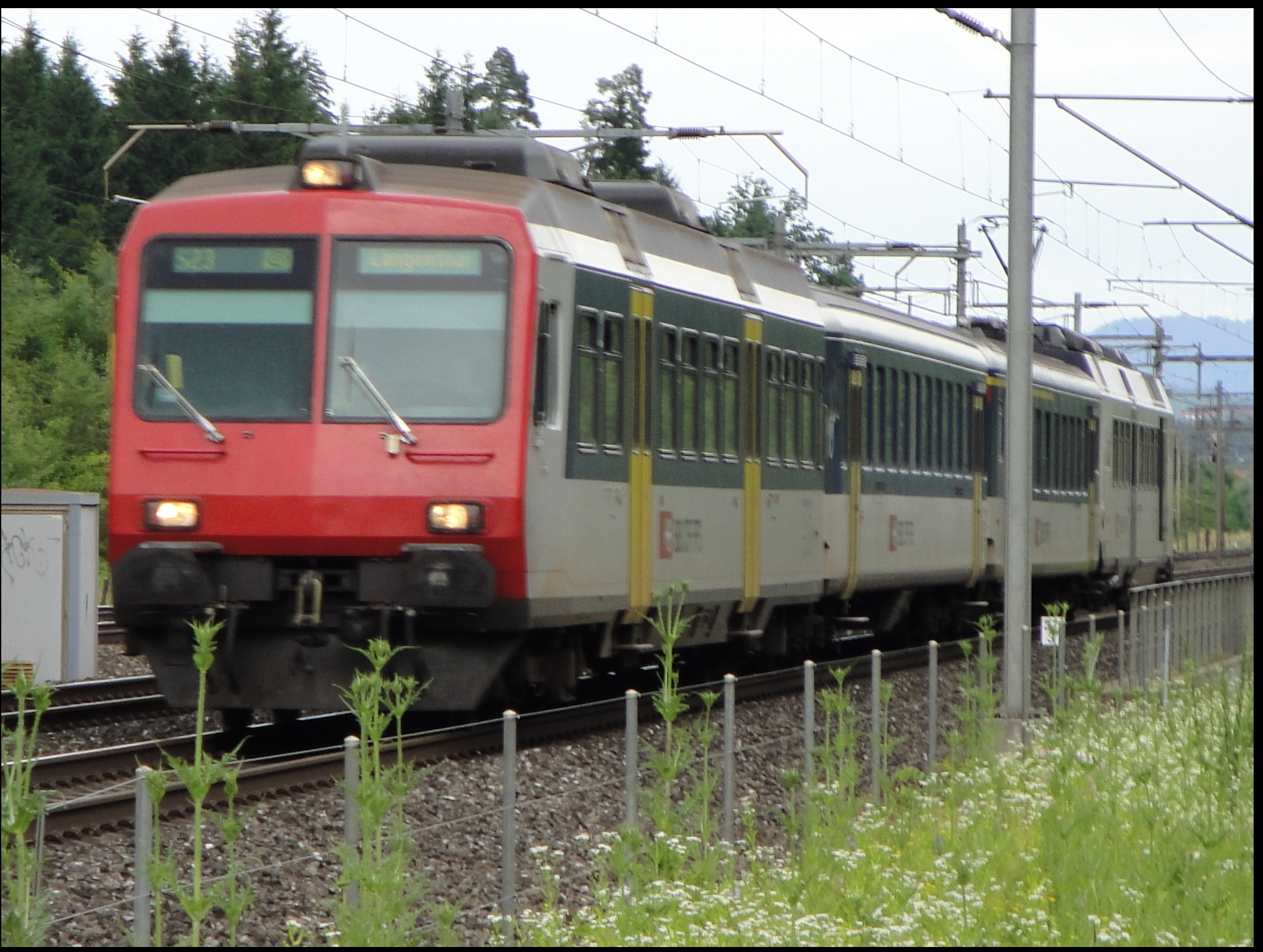 NPZ (Regional Shuttle Train) of the argovian suburban railway line S23 (Baden-Langenthal) between Rupperswil and Aarau. A rather special fact is that the driving car is one of the former Thurbo RBDe 560.